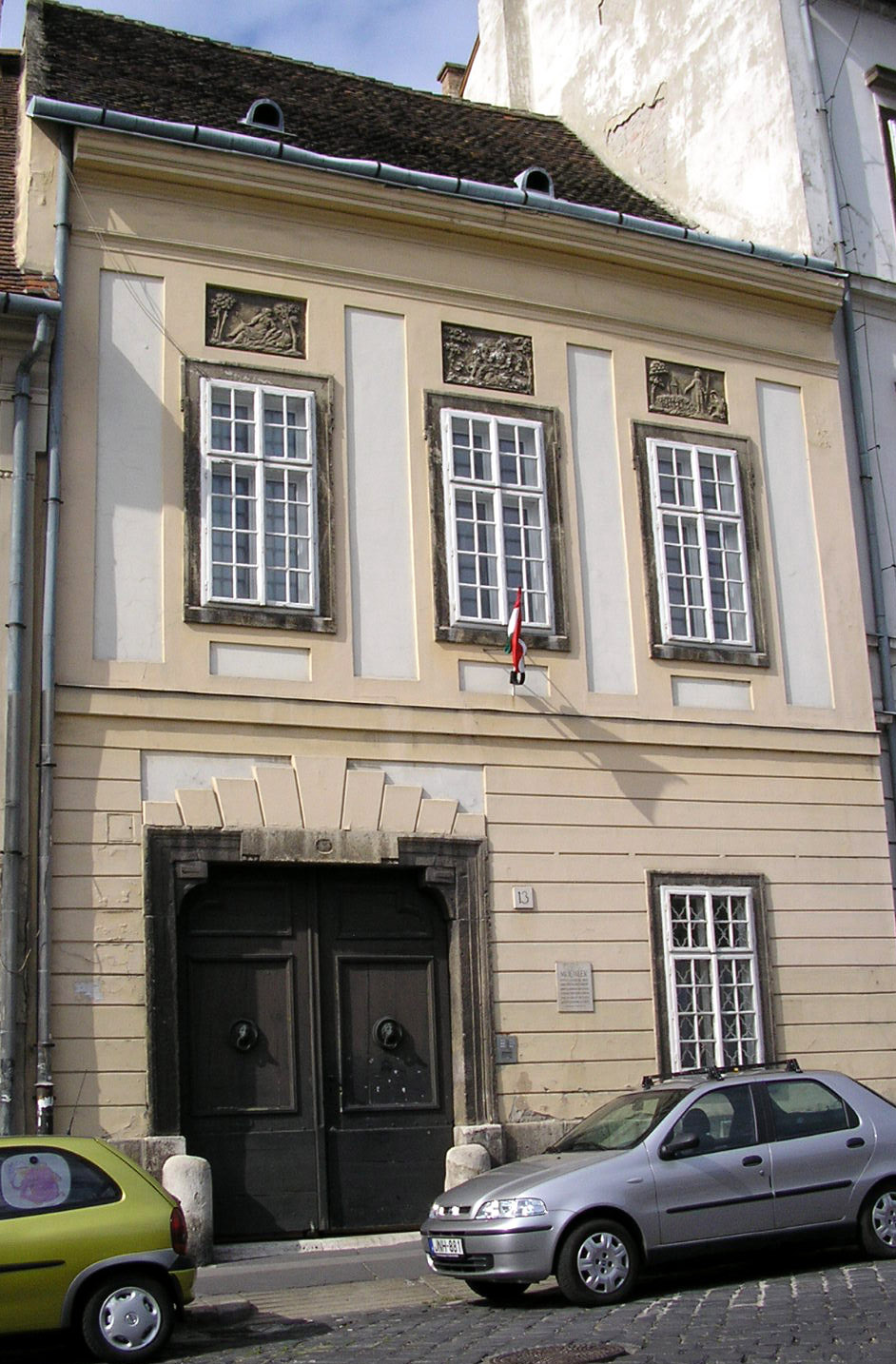 Place of parade, Buda Castle (Budapest)